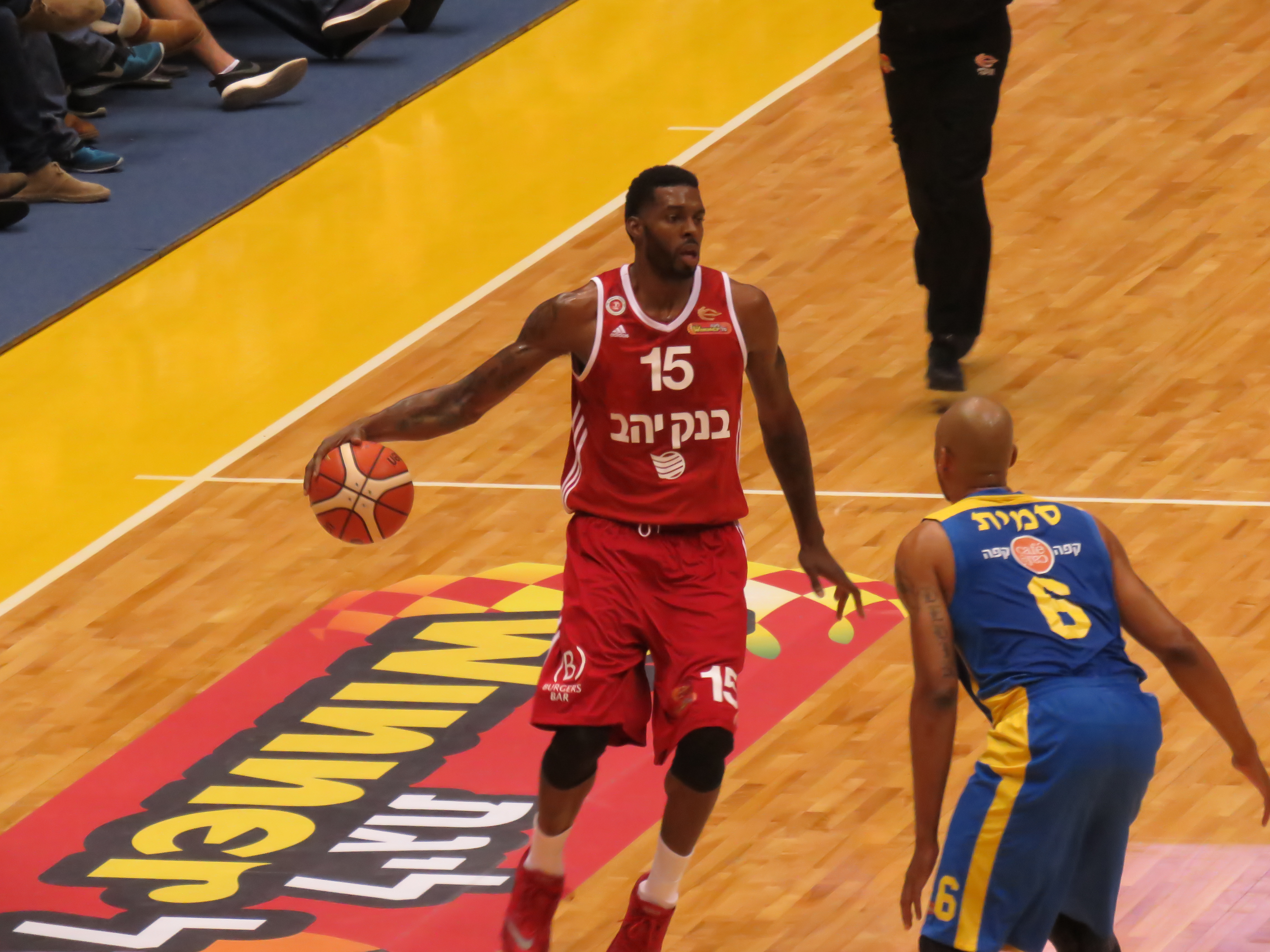 Maccabi Tel Aviv vs Hapoel Jerusalem, 25 October, 2015